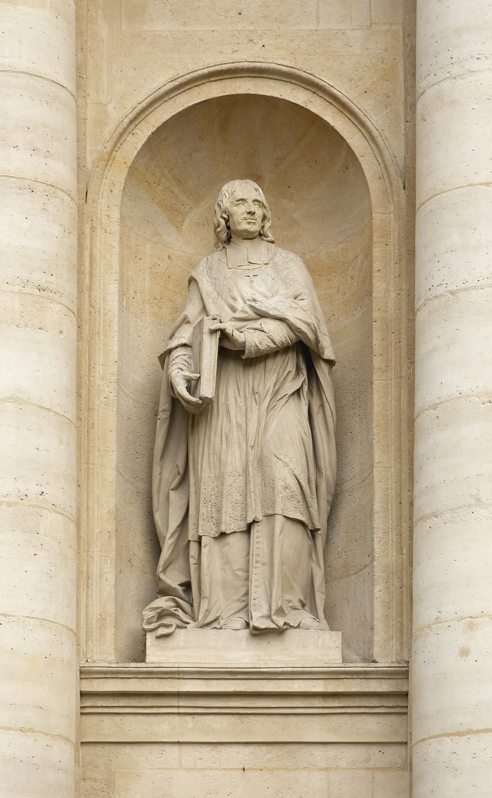 Statue of Jacques-Bénigne Bossuet by Louis-Ernest Barrias (1841-1905). Façade of the chapel of the Sorbonne, Paris, France.